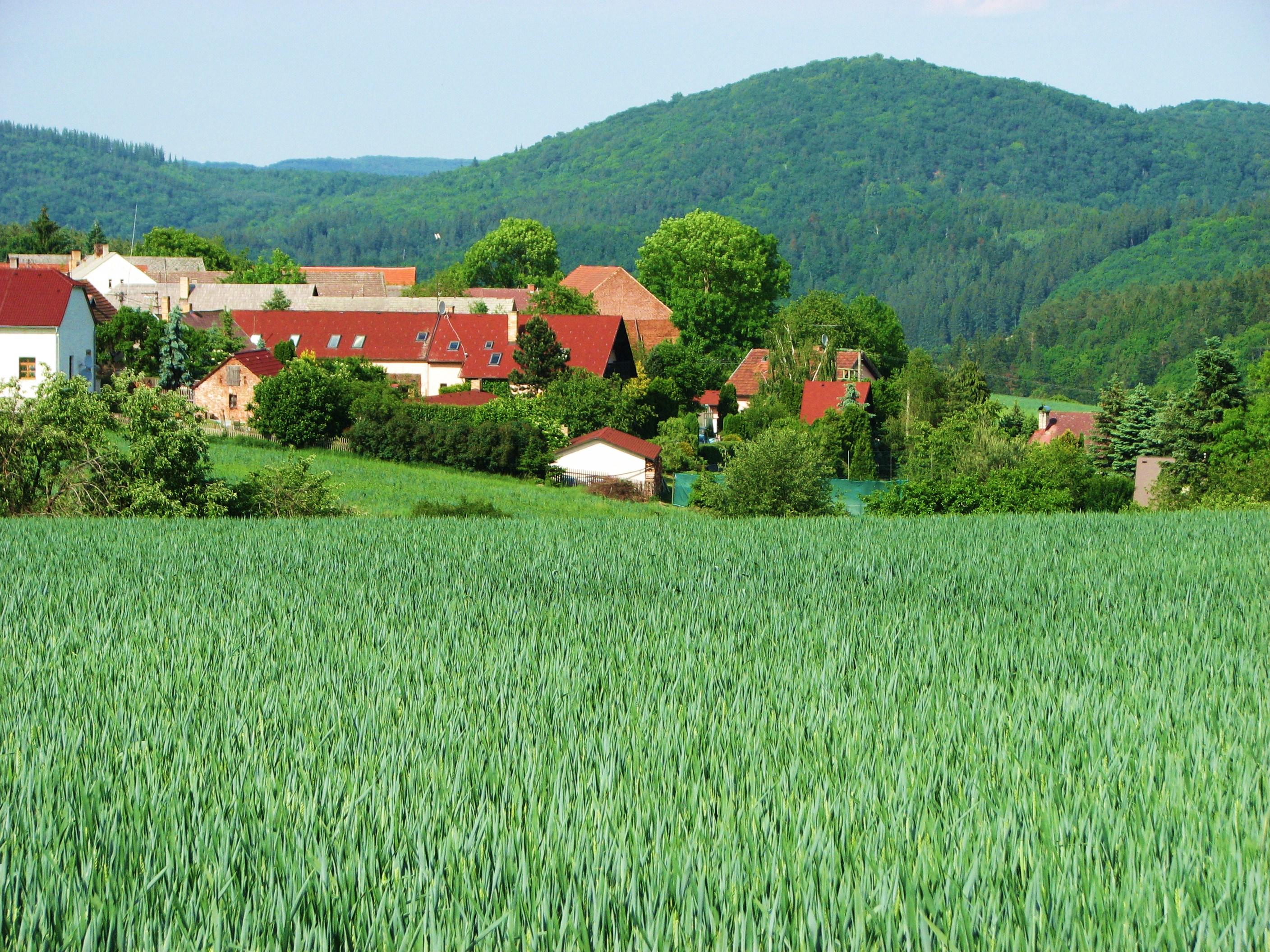 View of Ostrovec from approach road